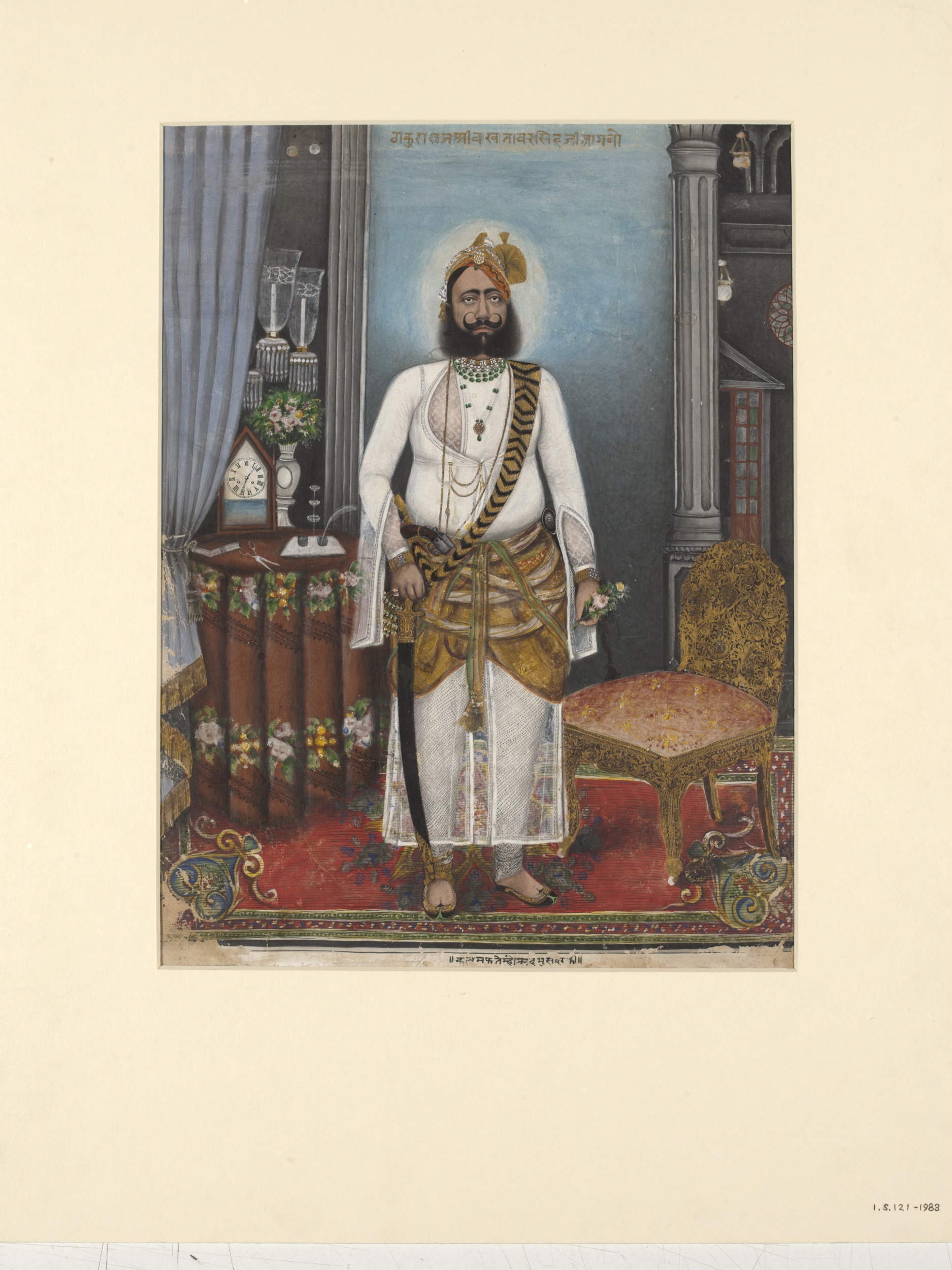 'Company paintings' were produced by Indian artists for Europeans living and working in the Indian subcontinent, especially British employees of the East India Company. They represent a fusion of traditional Indian artistic styles with conventions and technical features borrowed from western art. Some Company paintings were specially commissioned, while others were virtually mass-produced and could be purchased in bazaars. This Company painting is a portrait of Thakur Raja Bakhtawar Singh made by Fateh Muhammad around 1880 in western Rajasthan, probably Bikaner. The Rajput princely states had strong artistic traditions of their own, and their rulers were often generous patrons of painting. Consequently Company painting never really developed in Rajasthan to the extent that it did in many other areas of India. Occasionally, however, drawings were made in a semi-European style based on paintings from other parts of the country, and towards the end of the 19th century rulers were depicted, as here, in a European manner strongly influenced by photography; but on the whole there is little Company painting from Rajasthan.